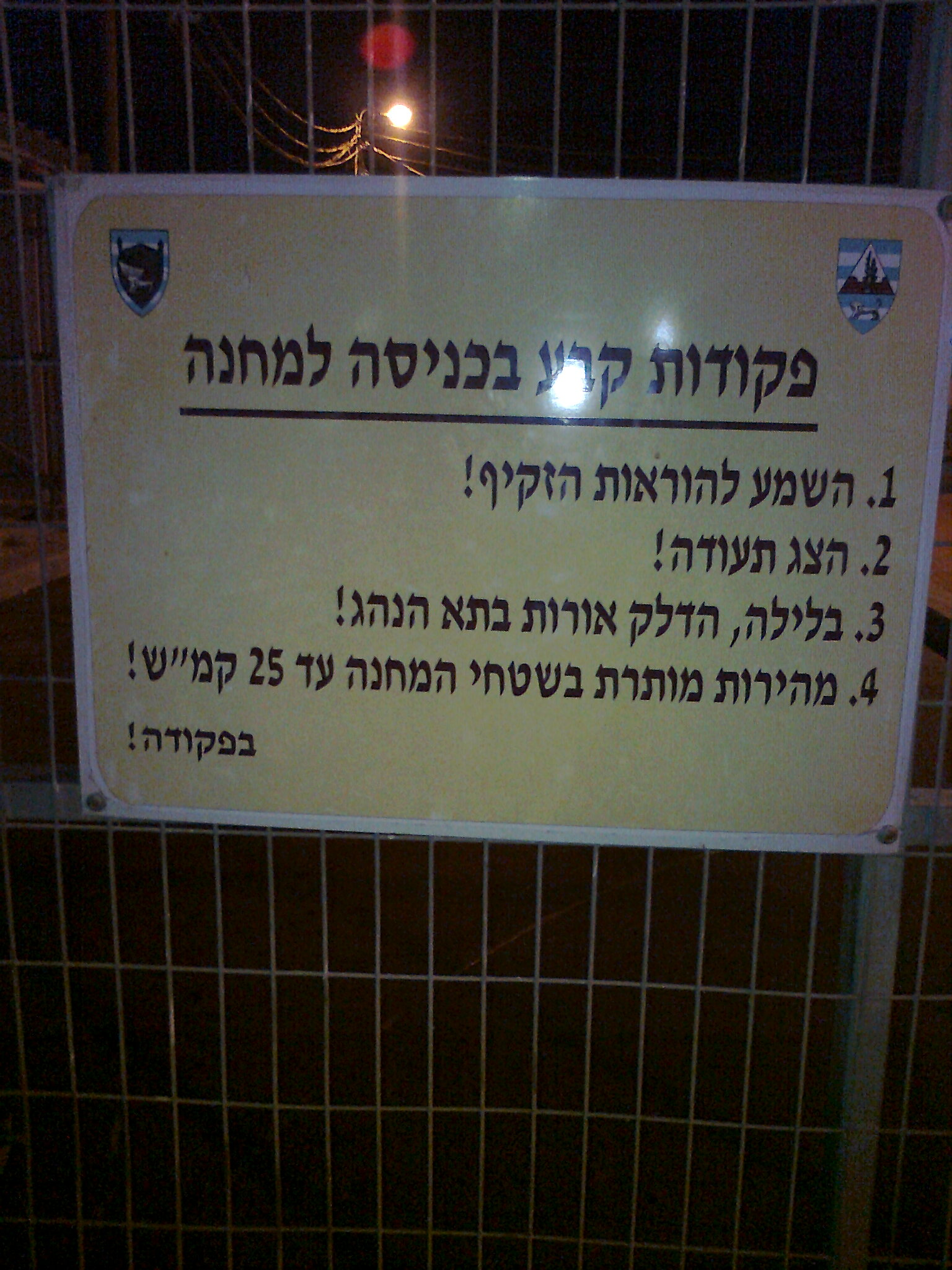 A sign in an entrance of military camp in Israel. All of the sentences are finished with exclamation mark.